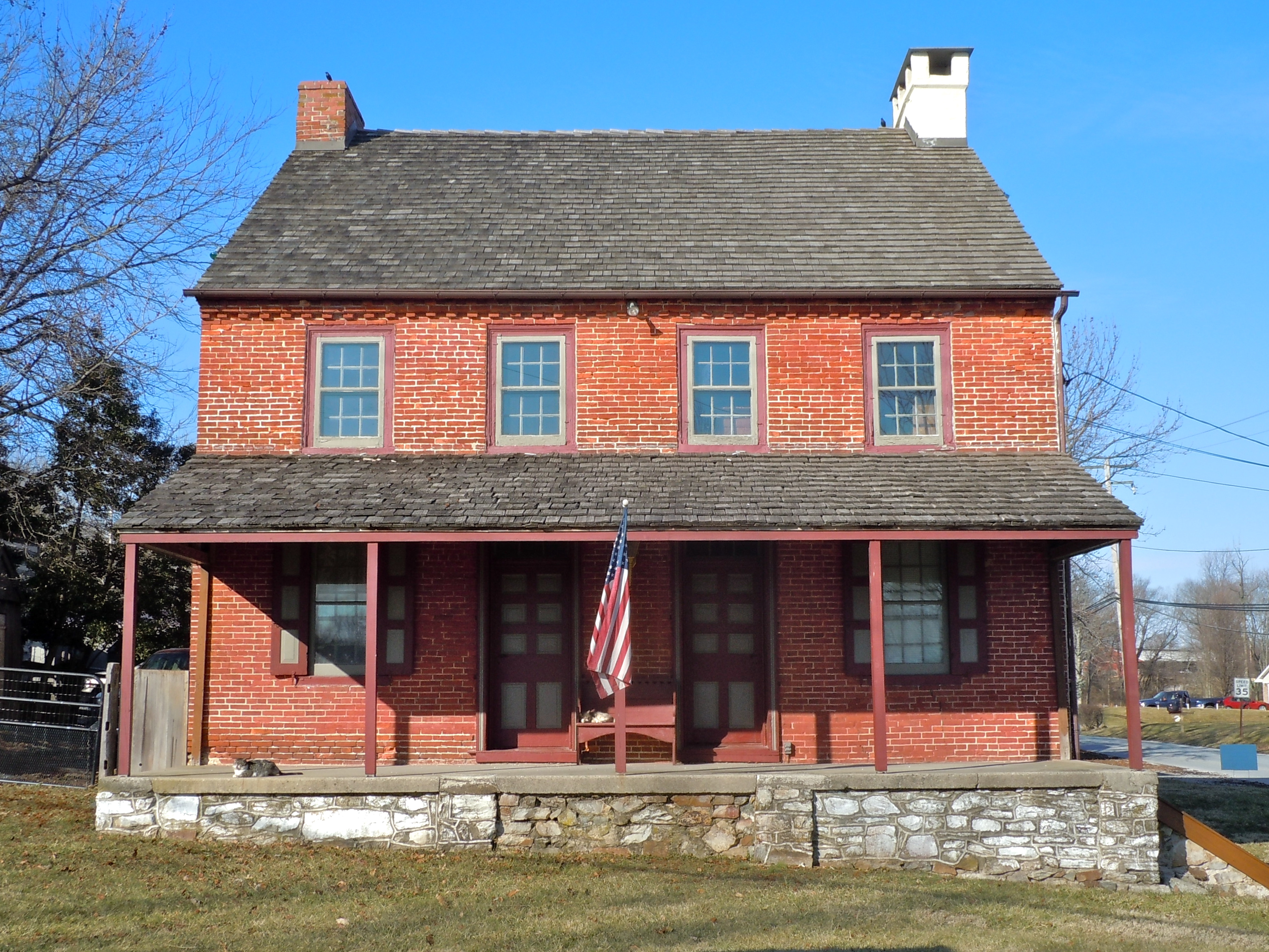 Sandy Hill Tavern on the NRHP since December 10, 1980. Located southeast of Honey Brook on Pennsylvania Route 340 at the NE corner with Sandy Hill Road, West Caln Township, Chester County, Pennsylvania, near Coatesville.